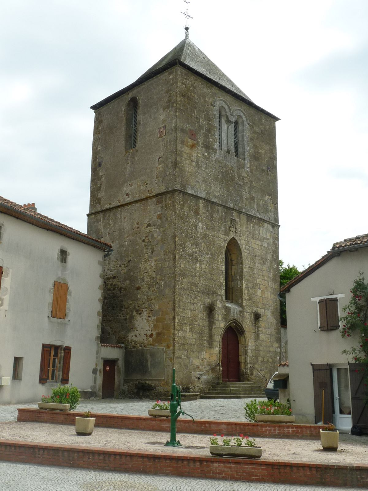 church of Abzac, Charente, SW France